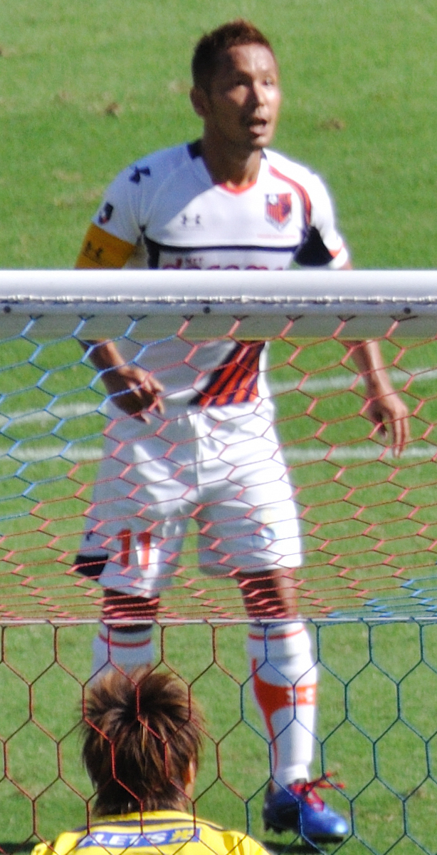 Chikara Fujimoto, cropped from game against FC Tokyo